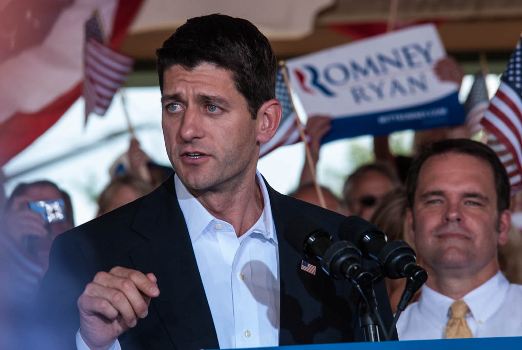 Wisconsin Congresman and Republican Vice Presidential candidate Paul Ryan.